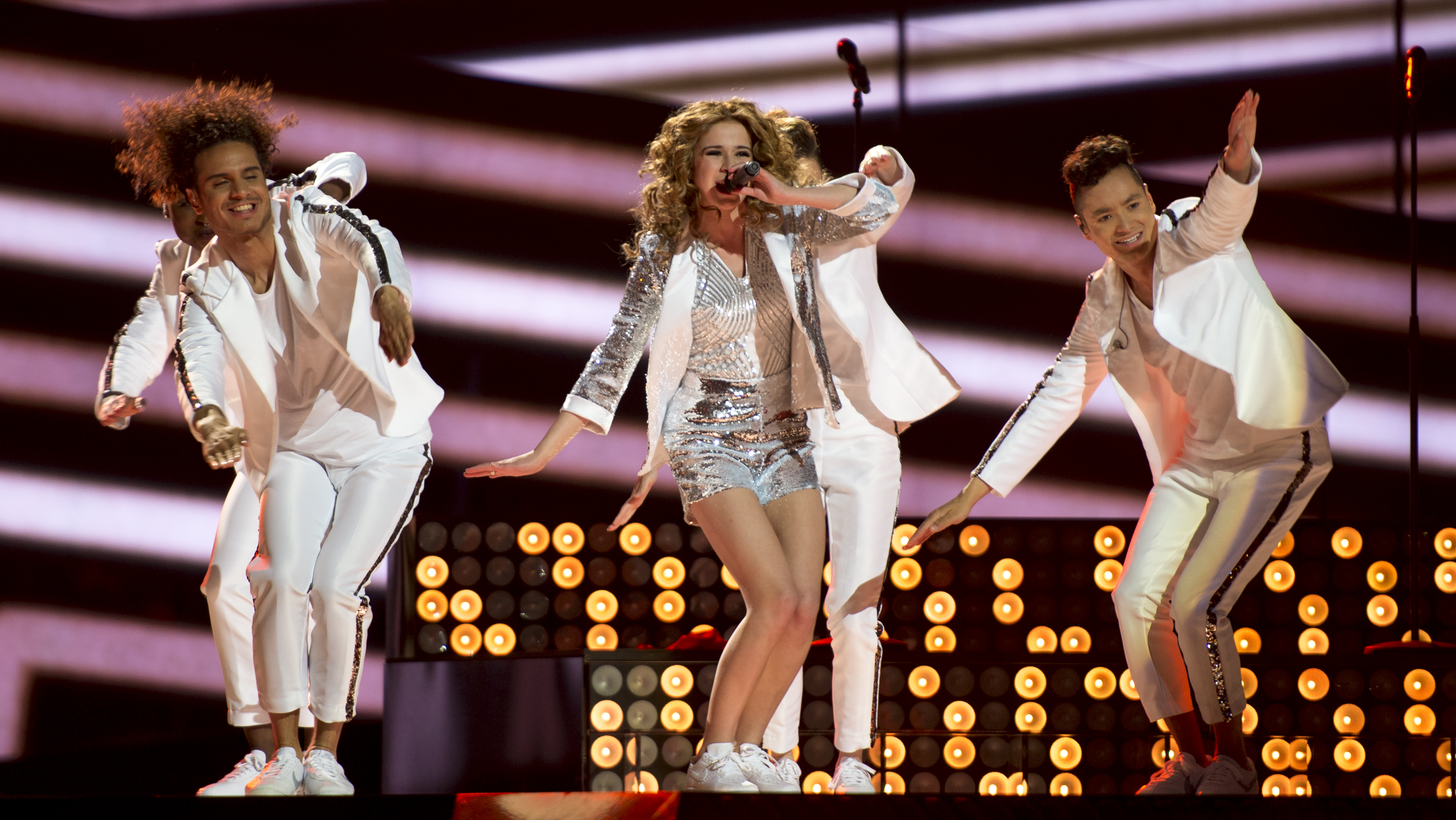 Laura Tesoro representing Belgium with the song "What's The Pressure" during a rehearsal before the second semi final of the Eurovision Song Contest 2016 in Stockholm. (Help translate this text)